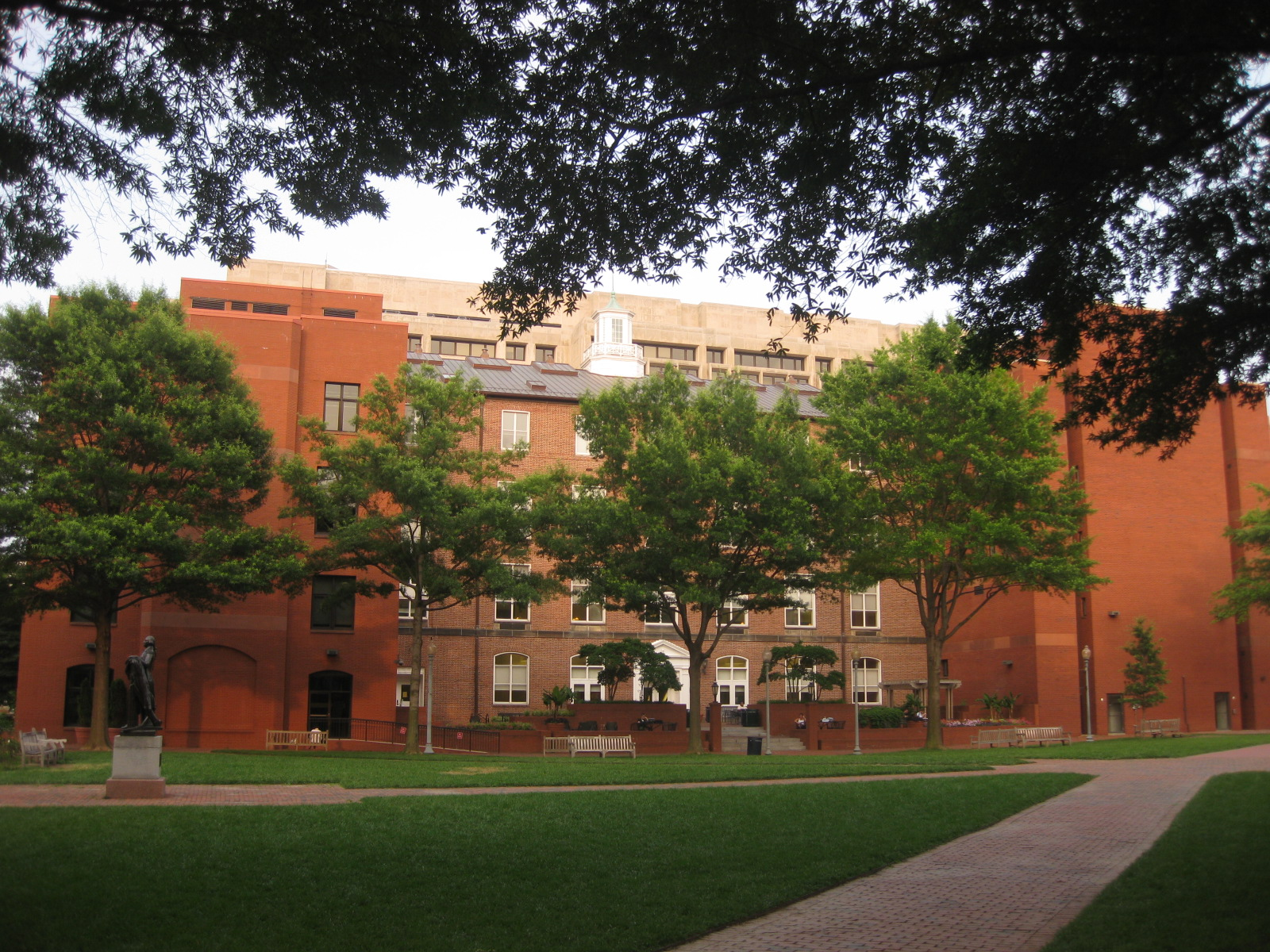 At the George Washington University's University Yard is Lerner Hall, Stockton Hall, and the Burns Law Library, respectively. Behind Stockton Hall, at center, is the IMF headquarters, across 20th Street.